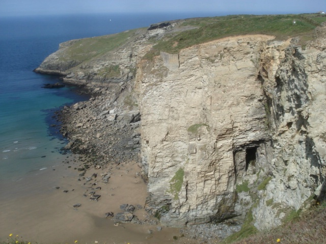 Cliffs at Hole Beach Looking north-west towards Penhallic Point. On the north side of Hole Beach there are several small slate quarries working into the cliff side, like the hole seen in this picture. Strong points would be built into the cliff face for cradles and buckets to lower the slate down the cliff face.